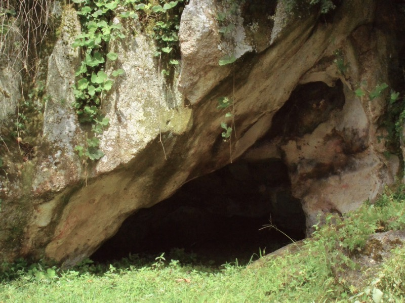 Hinata Caves in Takahata, Yamagata Prefecture, Japan